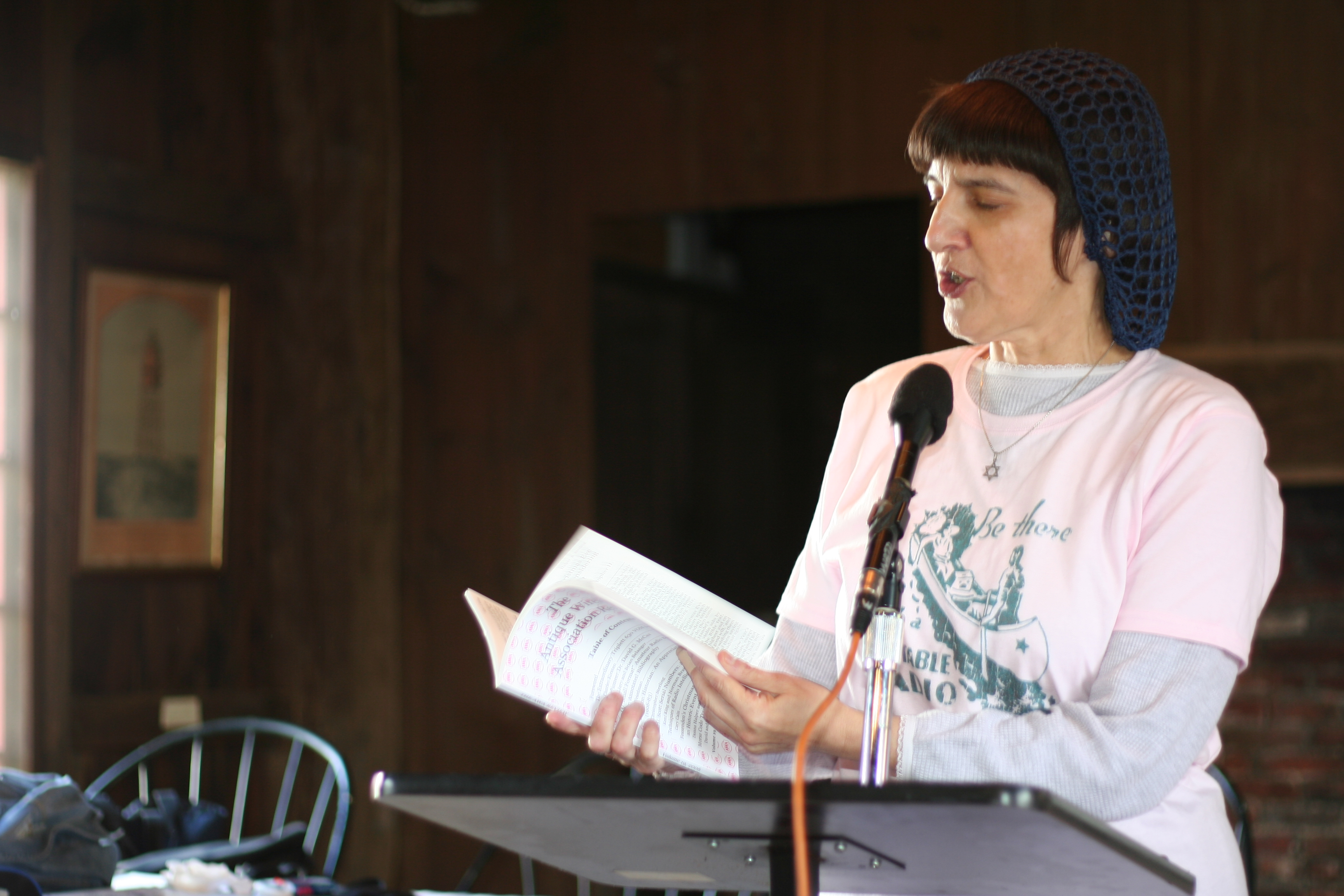 Donna L. Halper presents a summary of her paper (with Christopher Sterling), "Fessenden's Christmas Eve Broadcast: Reconsidering an Historic Event", Antique Wireless Association Review, vol. 19, pp. 119–139 (2006). The event took place at the Isaac Winslow house, Marshfield, Massachusetts.